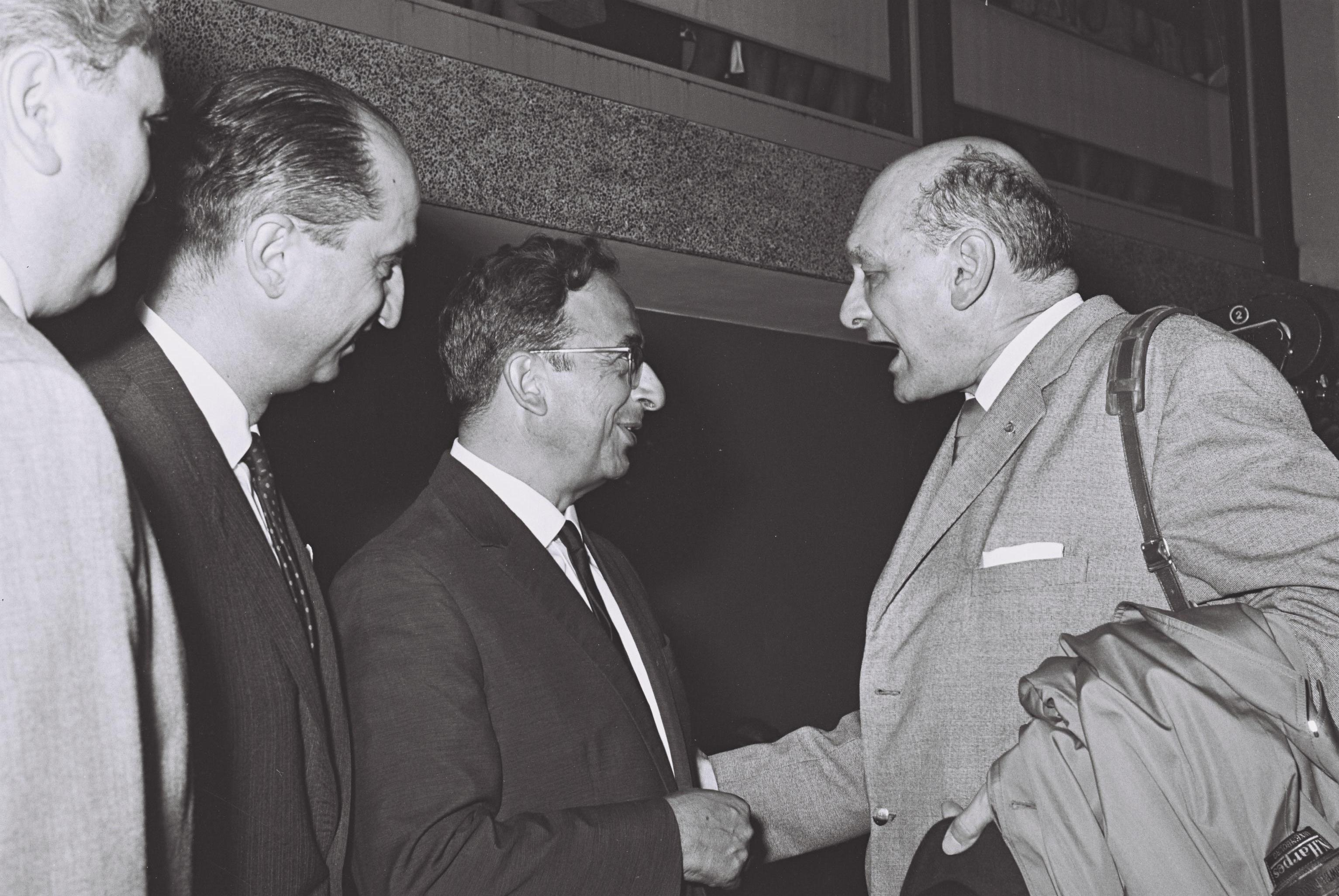 The president of Luxemburg chamber of deputies Victor Bodson shaking hands with Yitzhak Navon at Lod airport. next to them Victor Elyashar Israely foreign min.